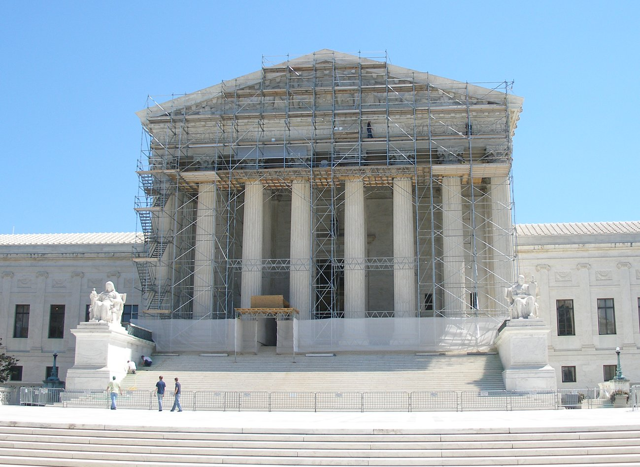 United States Supreme Court building under restauration